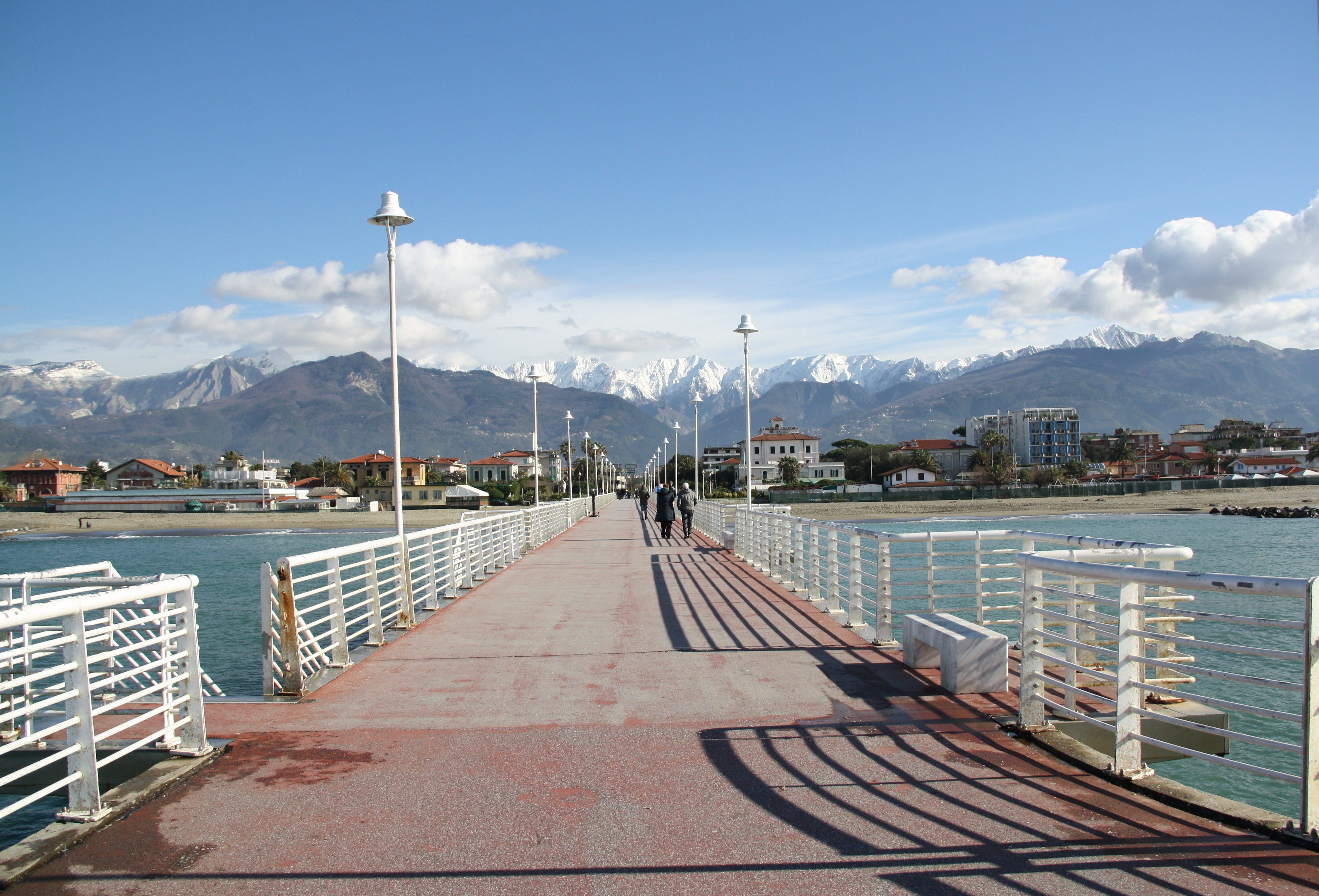 Italy, Tuscany, Marina di Massa, Lungomare di Ponente. Once was the pier “Cuturi” used to load the marble blocks aboard the vessels. The blocks were transported on carriage on rails from the quarry to the pier.The Pier toward Marina di Massa and the snowy Apuan Alps in the background.